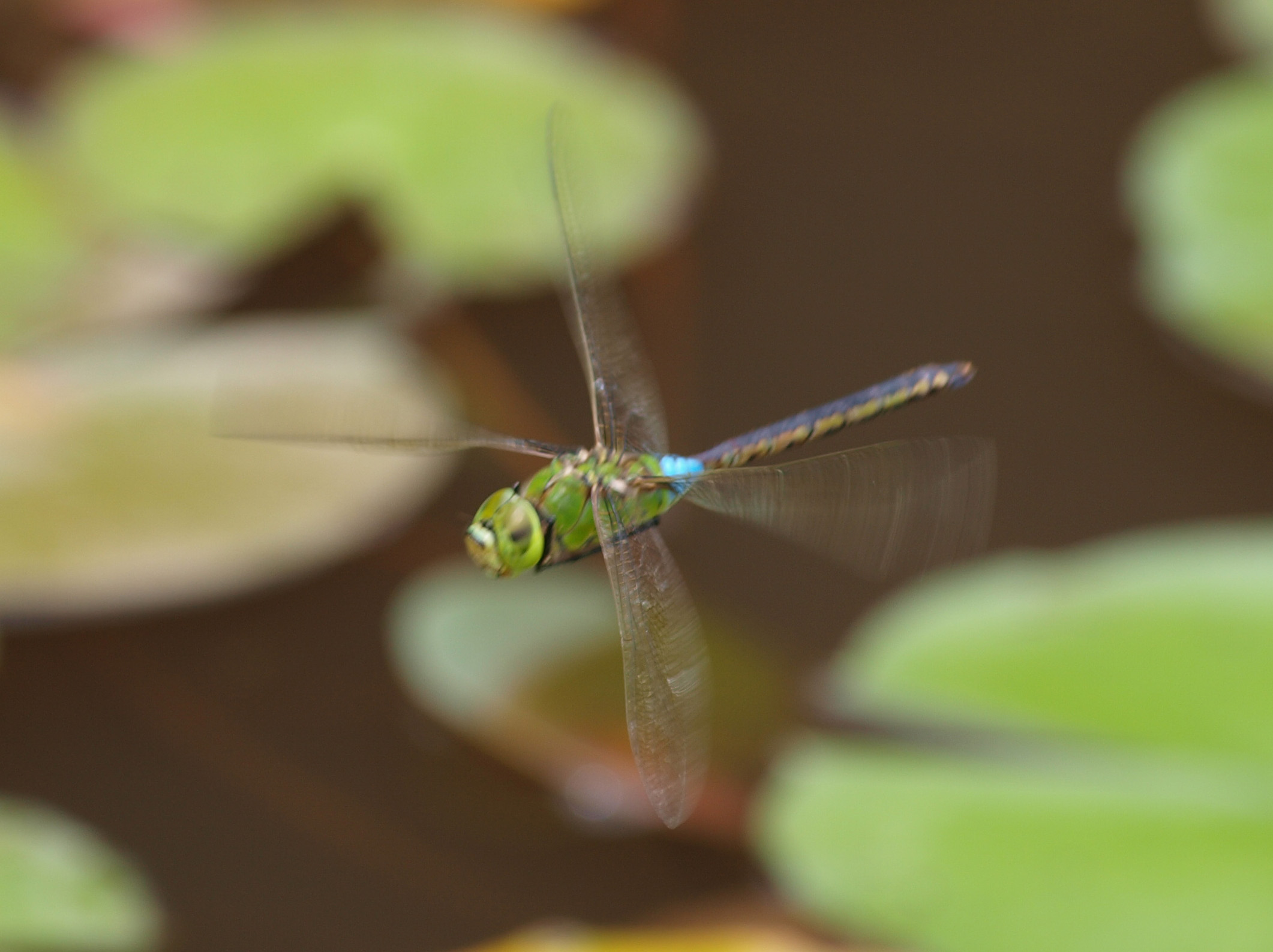 Anax parthenope at Shimanto City,Kochi Pref,Japan